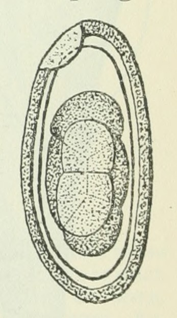 Dermatoxys veligera, egg, 110 x 50 micrometer